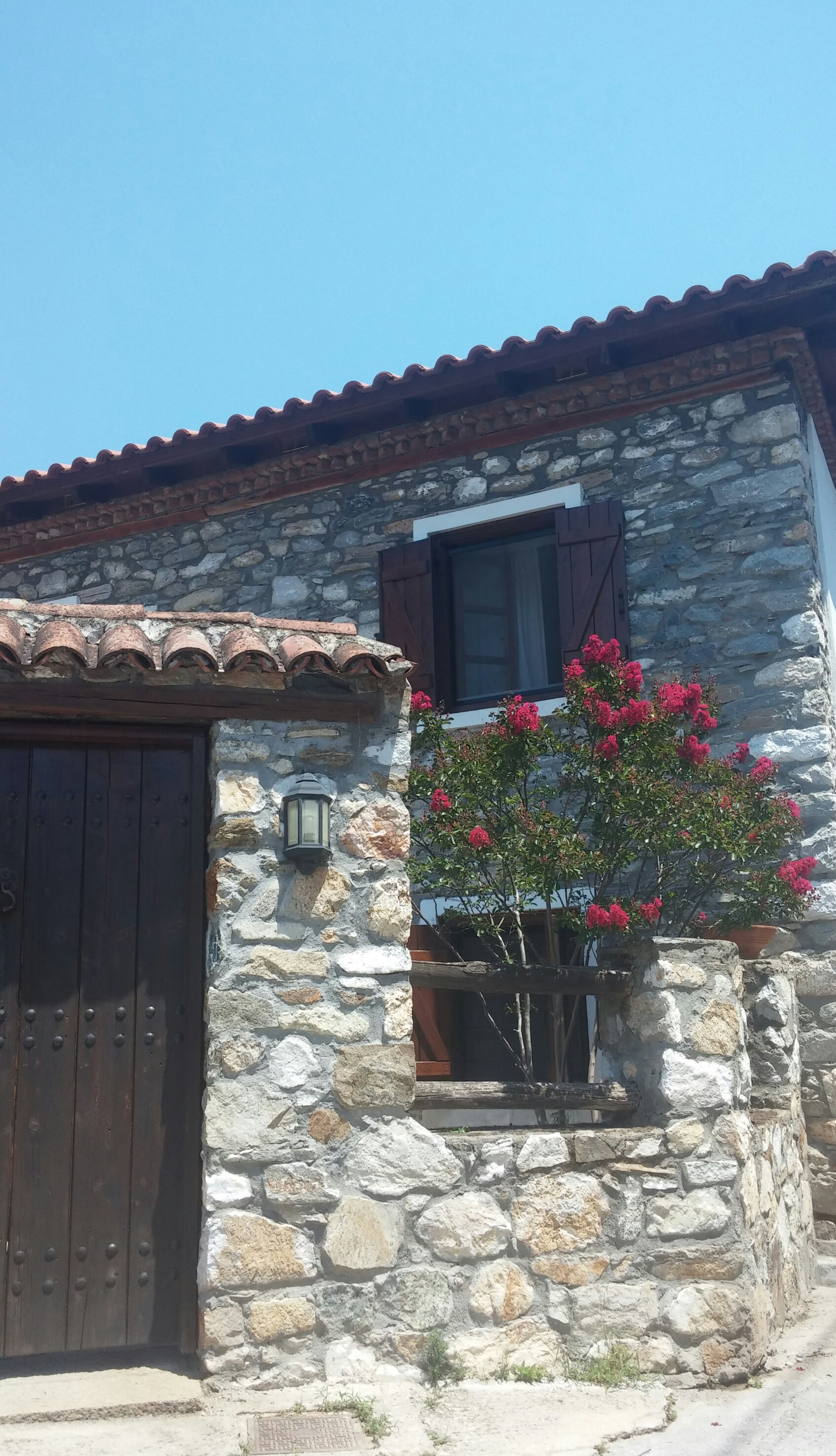 Vrasna House